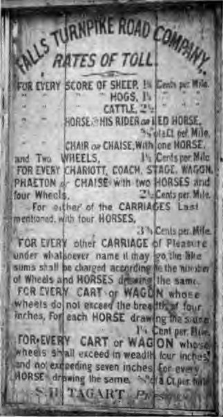 View of a toll rate sign on Falls Turnpike, Maryland. The road is now called Falls Road or Maryland Route 25.